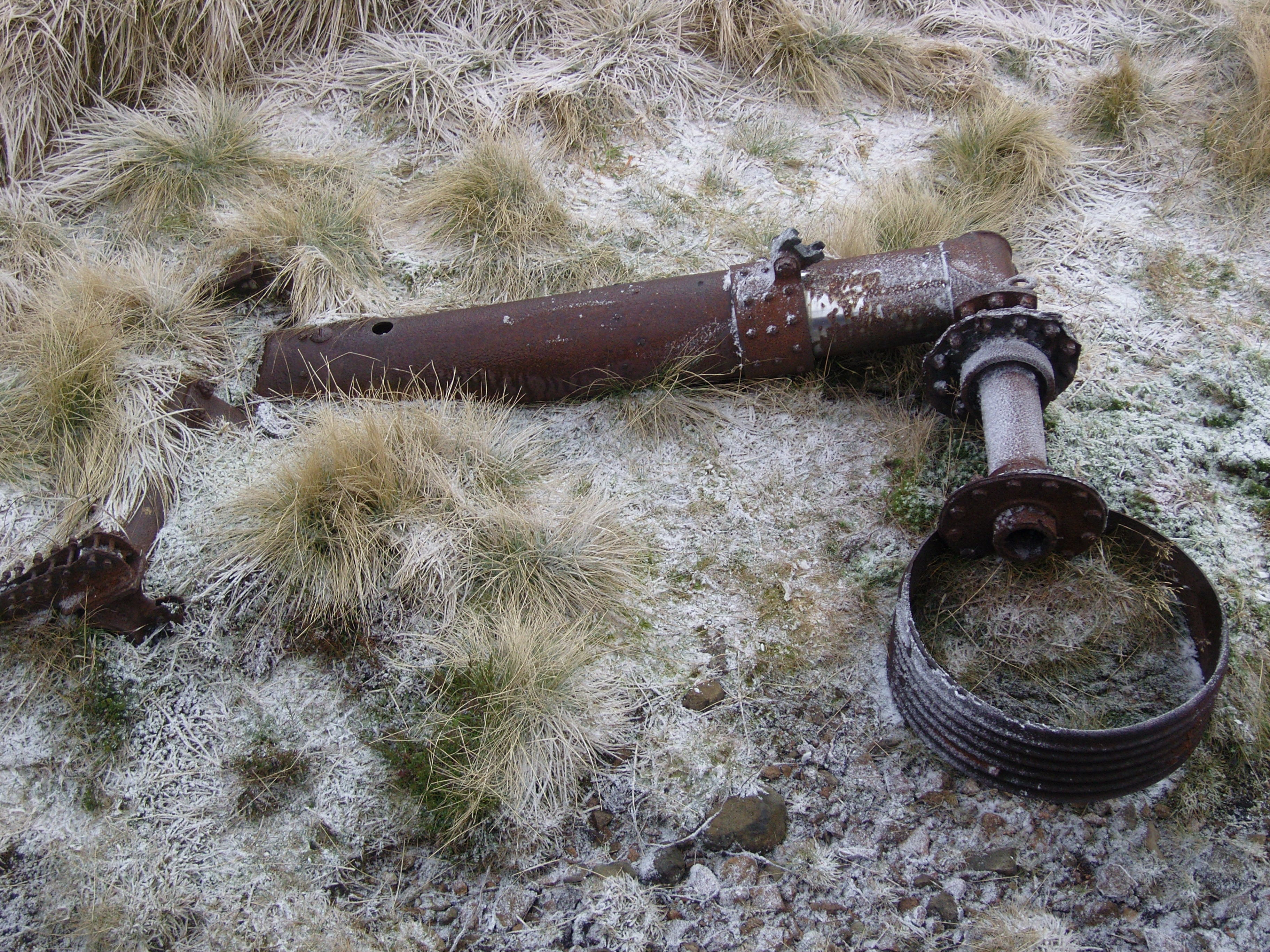 The landing gear of a B17 bomber that crashed on the summit of The Cheviot in WWII. Found in Northumberland, England.